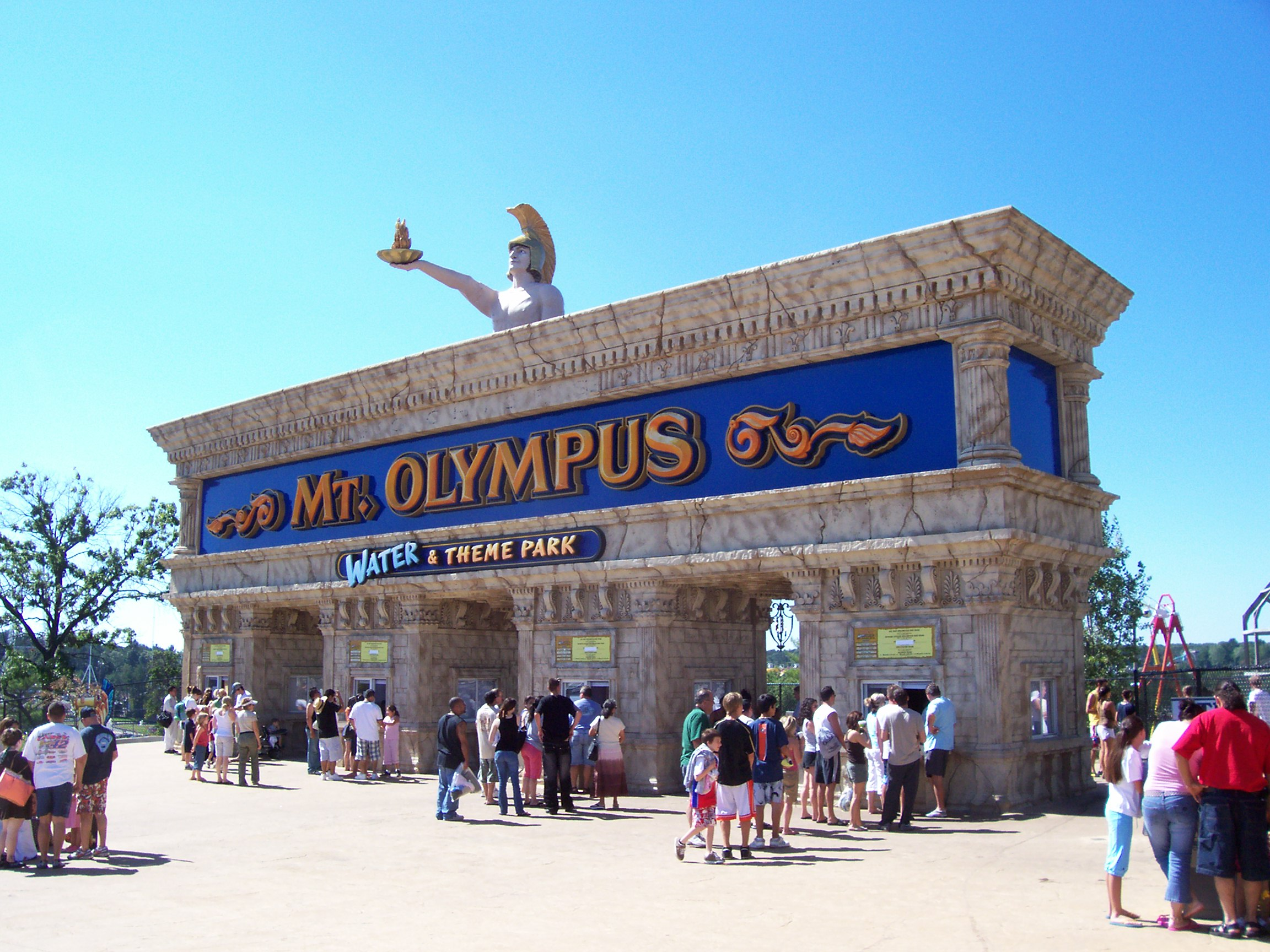 The entrance to Mt. Olympus Water & Theme Park in Wisconsin Dells, Wisconsin, USA. Taken September 2, 2007 by myself.